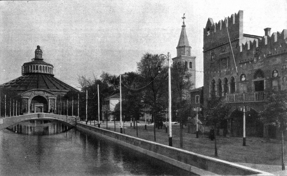 Adria Ausstellung Vienna 1913